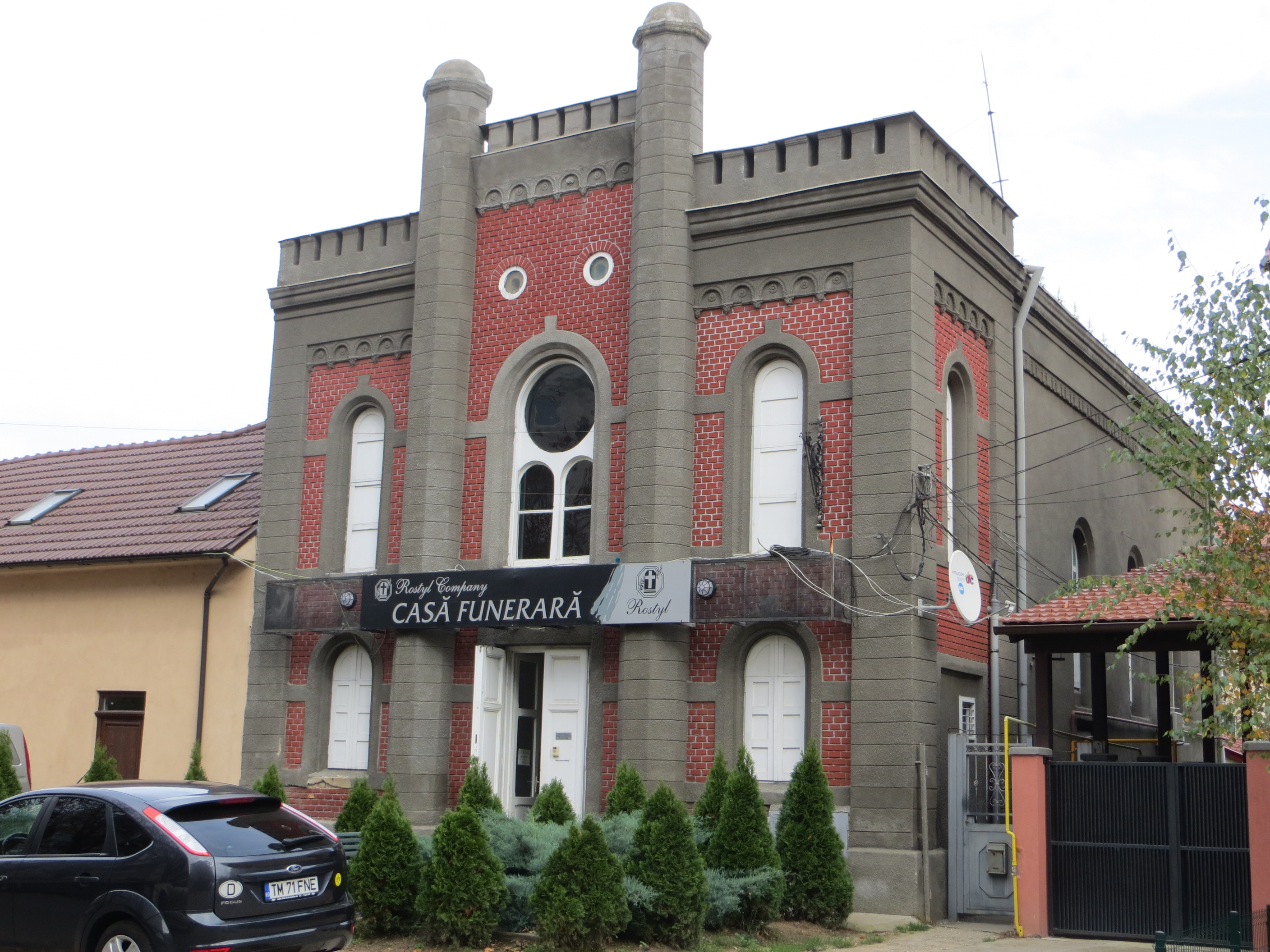 Former Synagogue "Status Quo Ante", then neologist, from Fabric, Timișoara, Romania